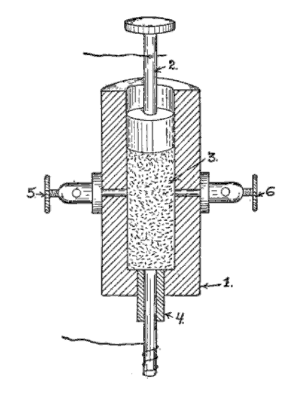 Diagram of the first coherer, invented in 1890 by French scientist Édouard Branly, an early radio signal detector used in the first radio receivers. The coherer was the first practical radio wave receiver, used in the first radio communication systems by Oliver Lodge, Alexander Stepanovich Popov, and Guglielmo Marconi until about 1910. It consists of a tube (1) containing metal powder (3), in contact with two pairs of electrodes (2,4 and 5,6) The top and bottom electrodes were connected to a dipole antenna to pick up the radio waves, and also to a DC circuit consisting of a battery and a galvanometer. When a radio signal from a spark gap radio transmitter was received by the antenna and applied across the electrodes, it caused the metal powder to become conductive. This allowed current from the battery to pass through the coherer and register on the galvanometer, indicating the presence of the radio wave. To restore the coherer to its high resistance receptive condition, the metal particles had to be disturbed by tapping it. The thumscrew (2) at top allows the pressure on the powder to be adjusted. Branly used the side electrodes (5,6) in experiments to measure the resistance of the powder at right angles to the radio current, establishing that the conductivity of the powder was increased in all directions.